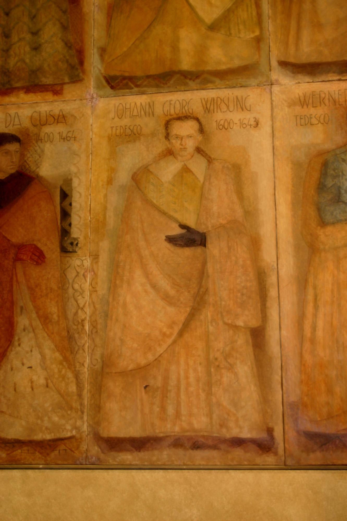 Johann Georg Wirsung's portrait inside Palazzo del Bo', Padua